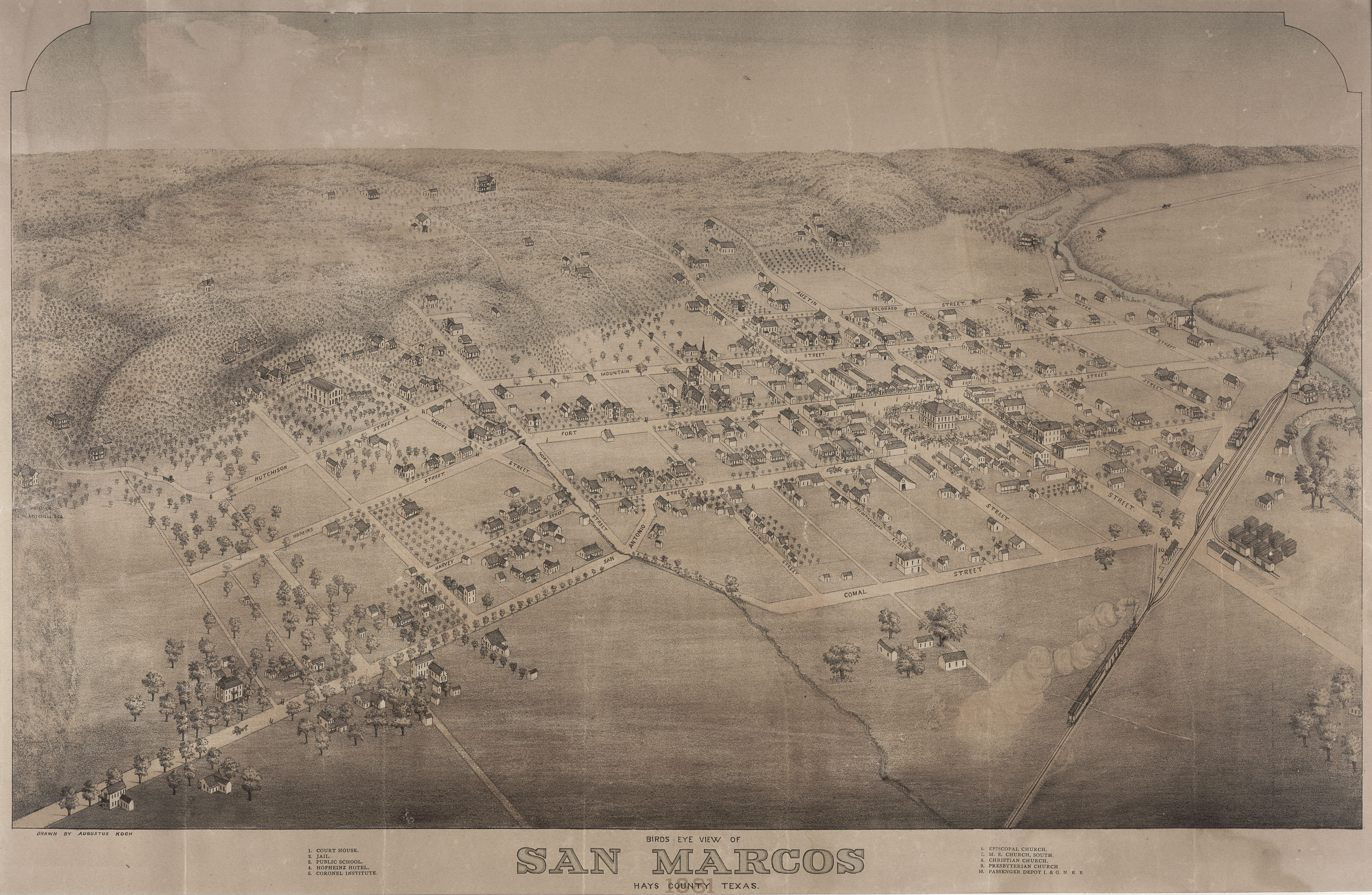 San Marcos, Texas in 1881. Bird's Eye View of San Marcos in Hays Co. Texas, 1881. Lithograph. Size and lithographer unknown. Private Collection.